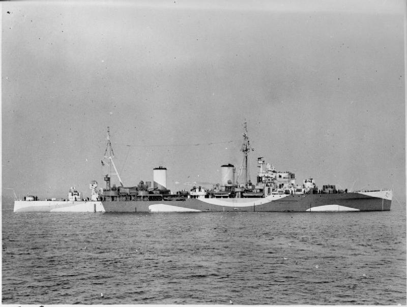 Photograph of British light cruiser HMS Penelope at Spithead.